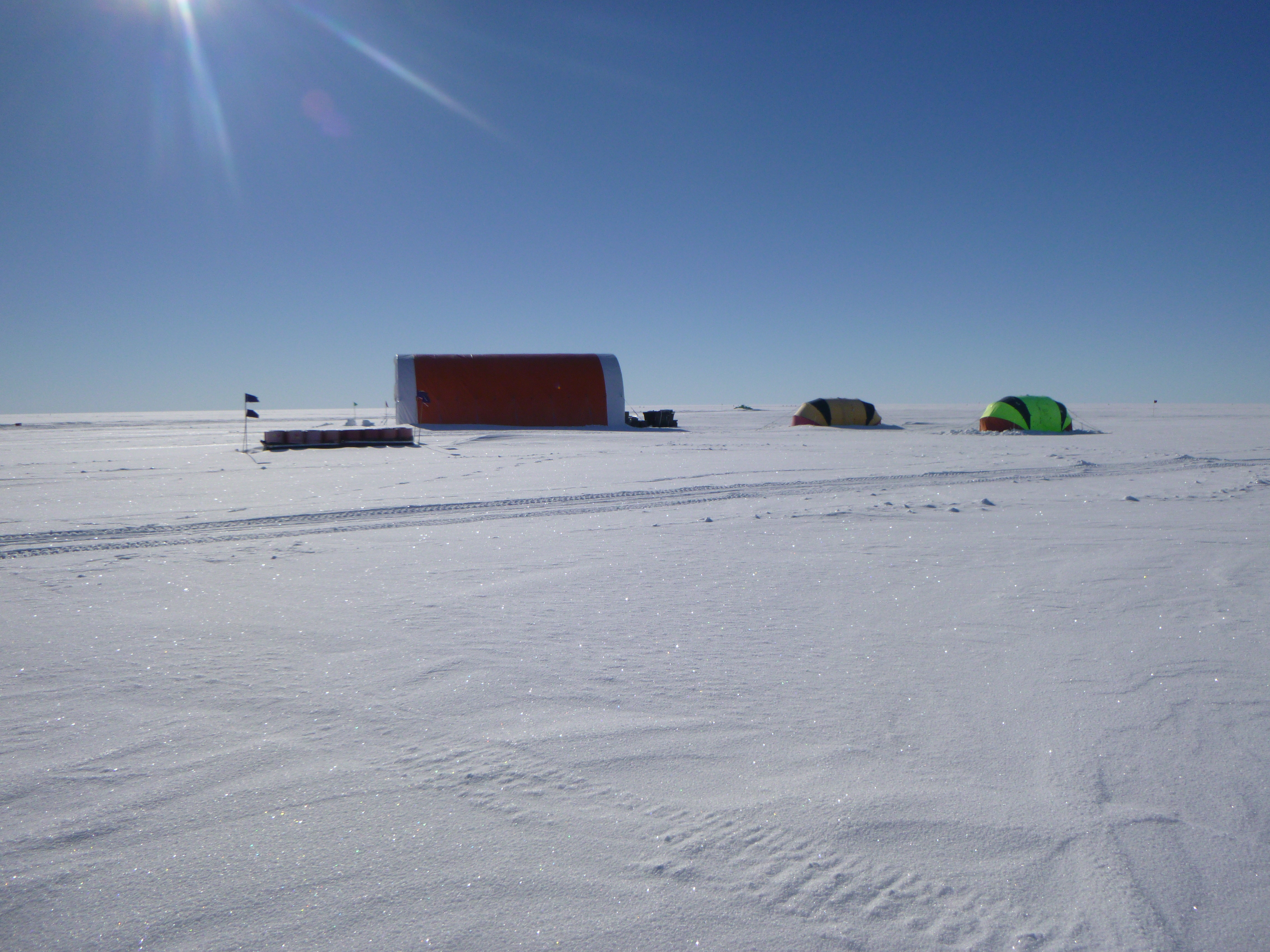 The camp for the Aotearoa New Zealand Ross Ice Shelf Programme hot water drill borehole (HWD2) in the central region of the shelf in December 2017. This is only the second central borehole through this shelf following “J9” in 1977.